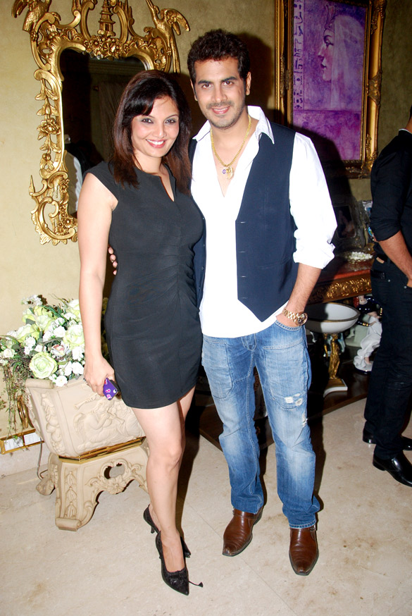 Deepshikha, Kaishav Arora at Mika's birthday bash hosted by Kiran Bawa